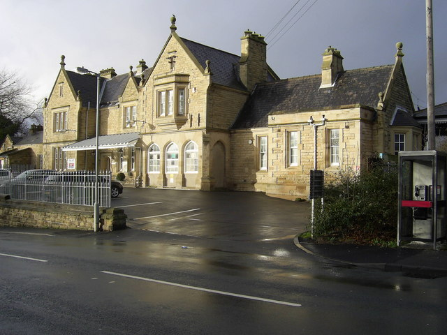 Morpeth Railway Station